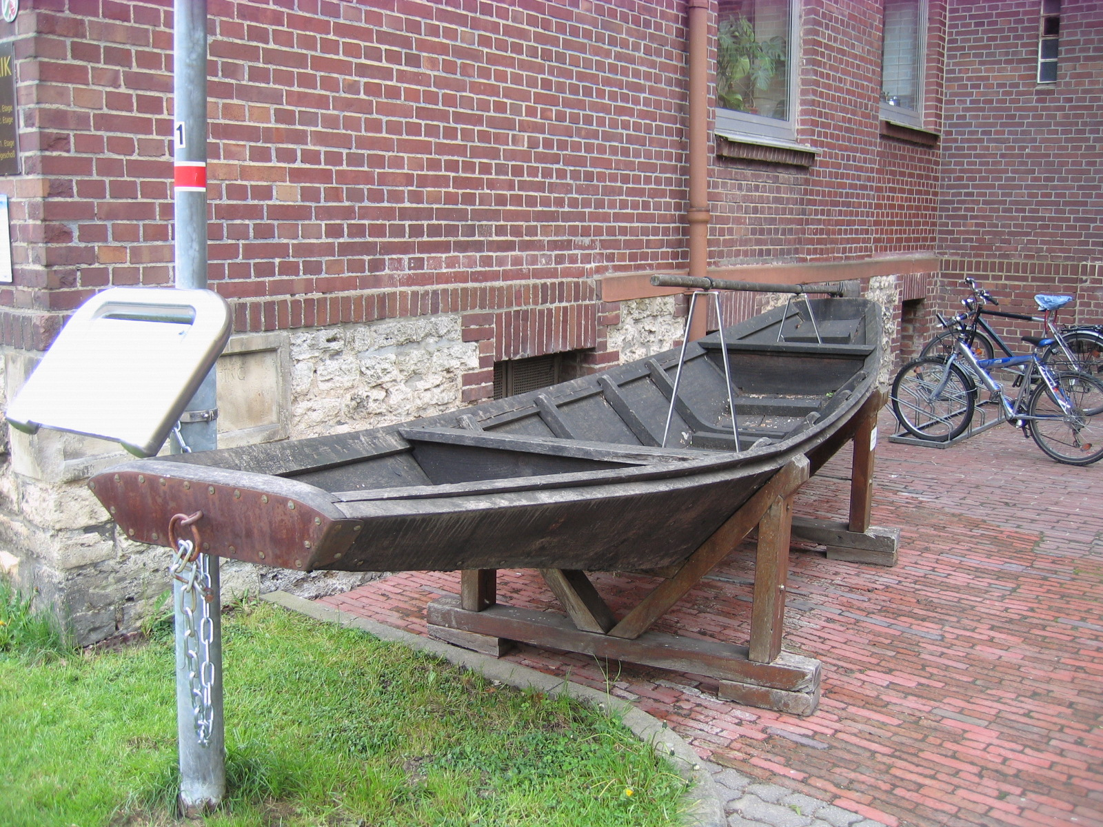 in Vlotho, District of Herford, North Rhine-Westphalia, Germany.